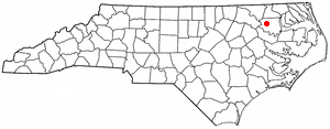 Category:North Carolina Dot Maps